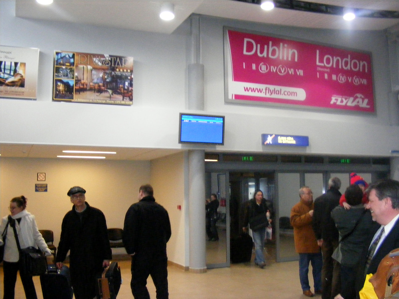 Palanga International Airport North terminal, arrival hall